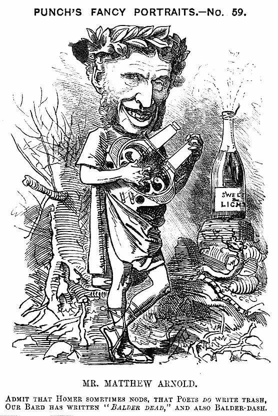 1881 caricature of Matthew Arnold: scanned form Punch, 26 November 1881, page 250 Artwork by Edward Linley Sambourne.